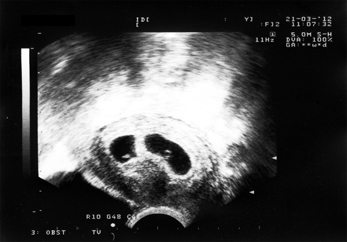 Dichorionic diamniotic twins in the 4th week after fertilization